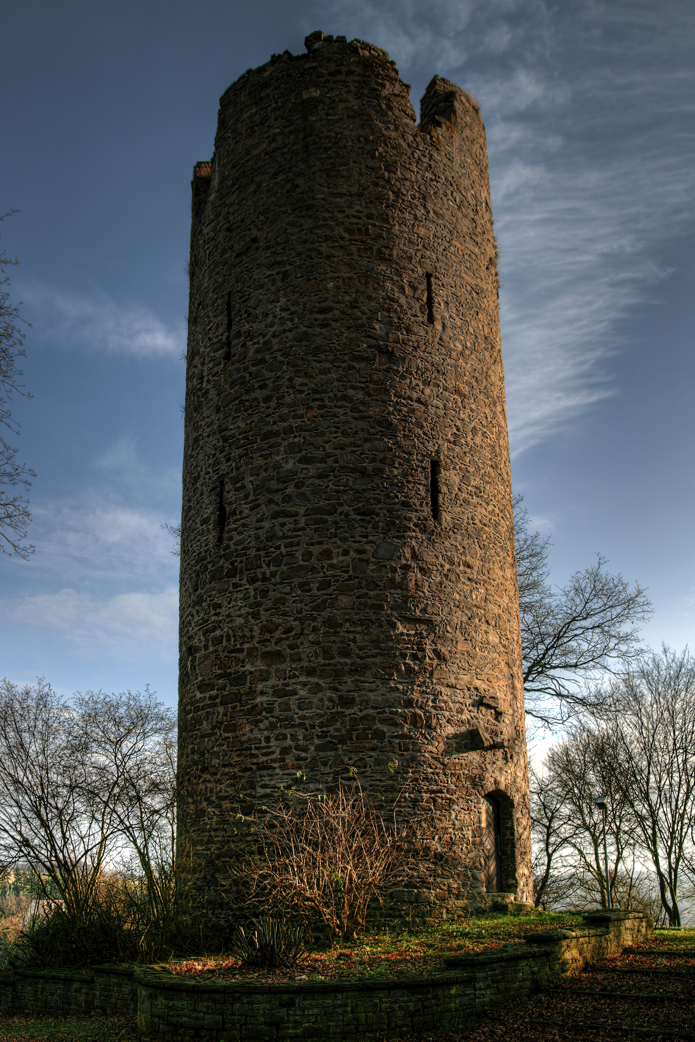 Ruined Castle in Burglahr